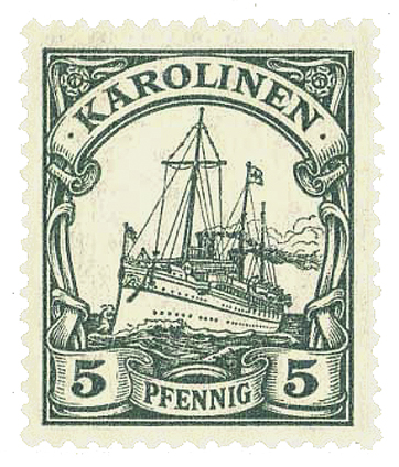 Postage stamp, Germany, 1900: Royal yacht "Hohenzollern", issue for German Caroline Islands (1900-1914).